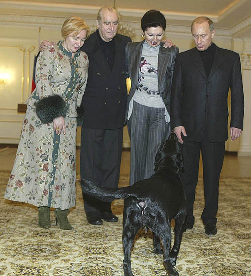 Novo-Ogaryovo. With Labrador Koni. From left to right: Lyudmila Putina, Austrian President Thomas Klestil, Margot Klestil-Loffler.